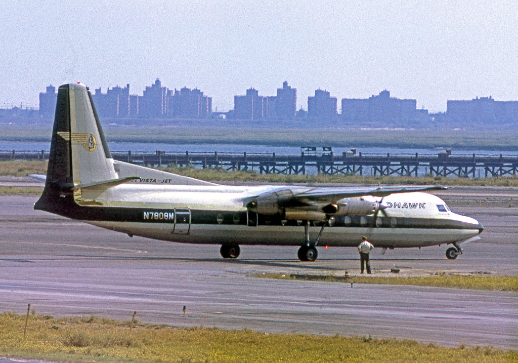 Fairchild-Heller FH-227B N7808M of Mohawk Airlines at JFK New York in 1970.